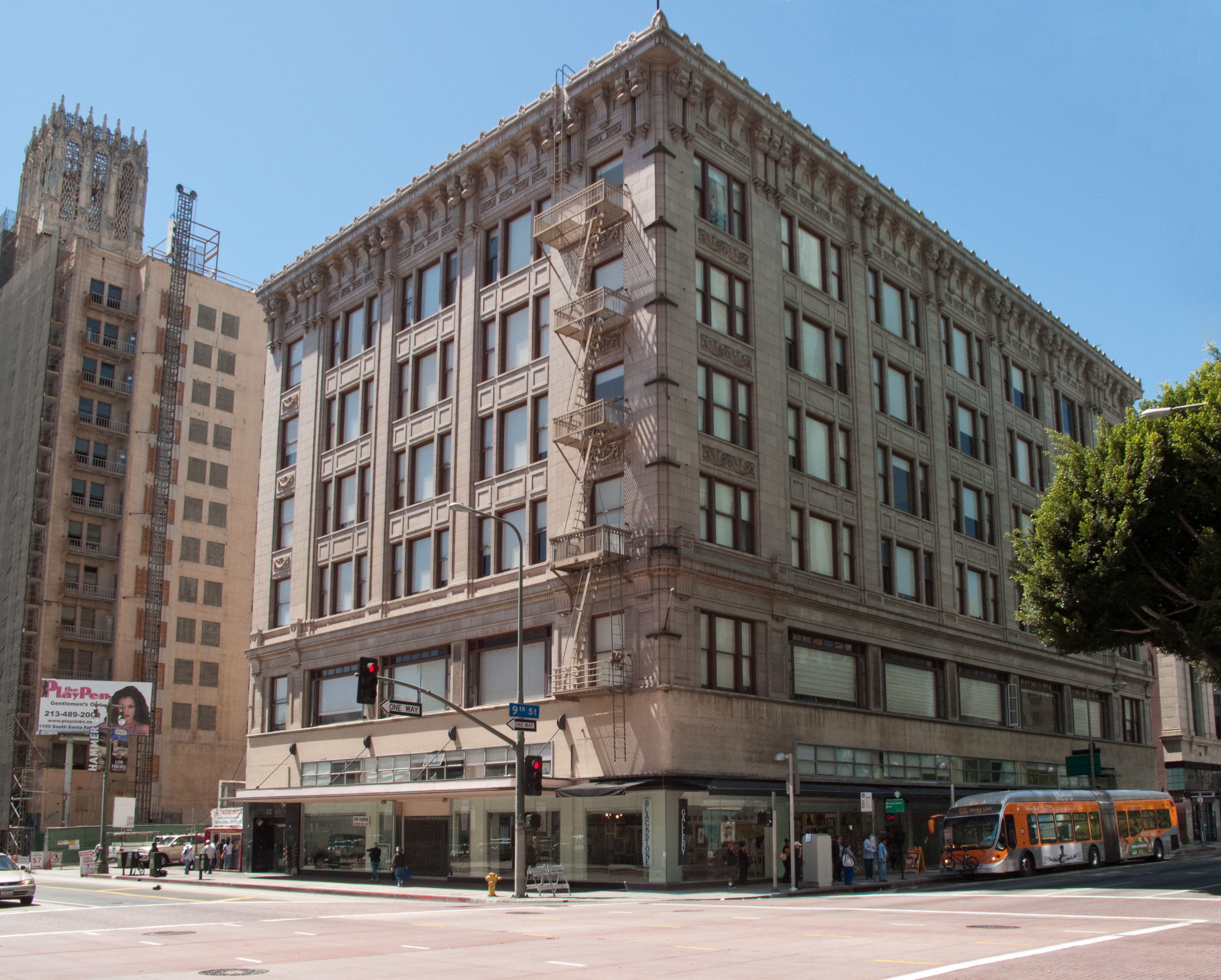 Blackstone's Department Store, 901 S. Broadway, Downtown Los Angeles, California. Designed by John and Donald Parkinson in 1916, with 1939 a 1st floor facade remodeling by Morgan, Walls & Clements. It is Los Angeles Historic-Cultural Monument #765. The canopy of a large Ficus benjamina tree planted on the parkway juts out over the street.